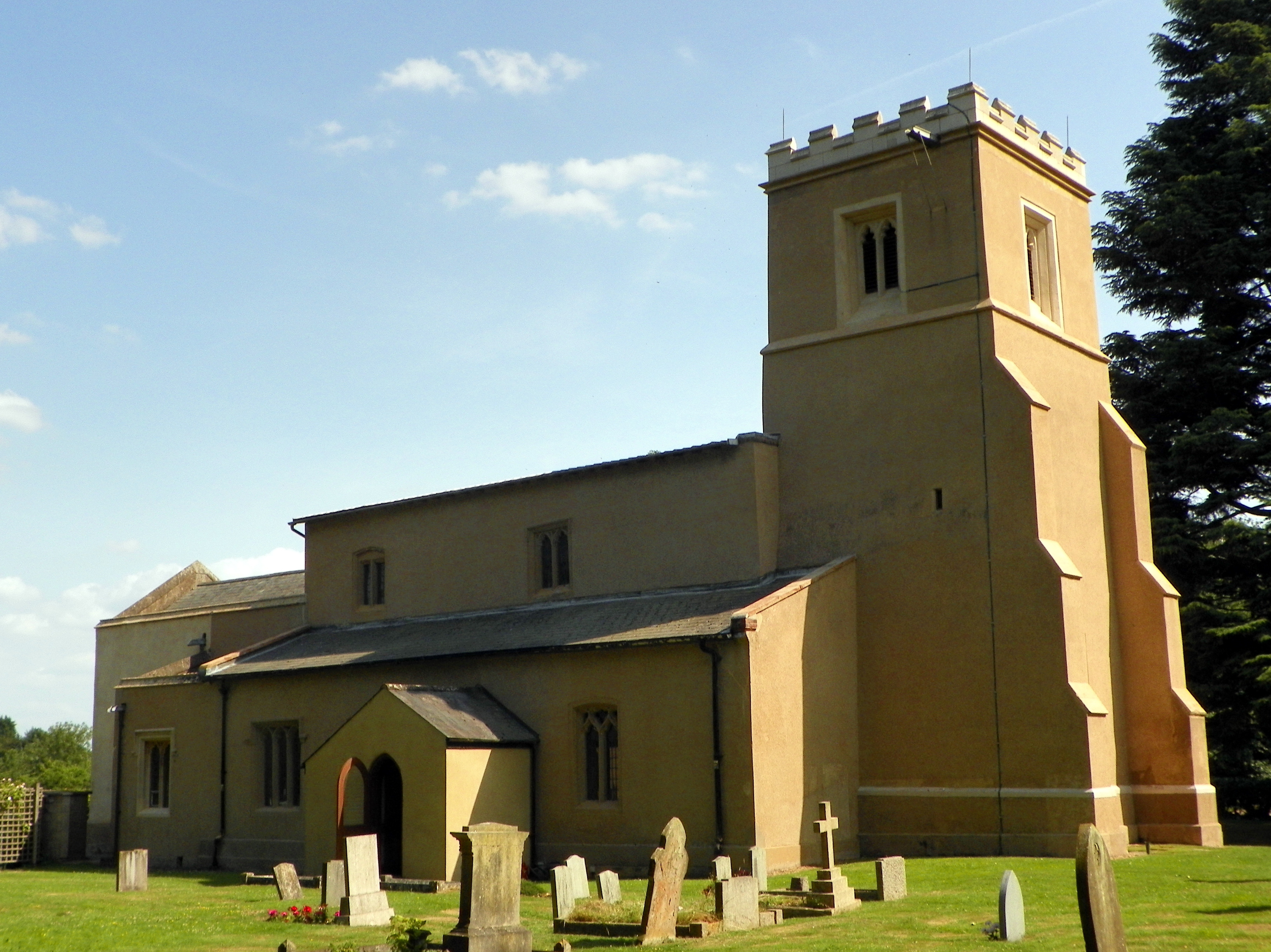 Church of St Mary, Studham, Central Bedfordshire